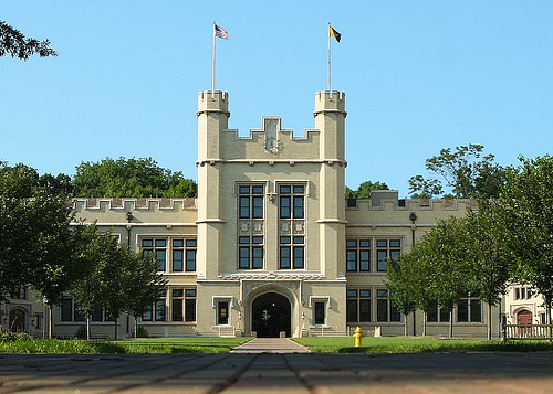 I took this picture of Kauke Hall in Wooster, Ohio on August 13, 2007. For more information see the license below.